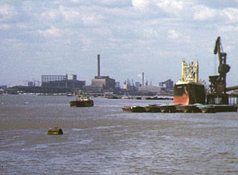 Blackwall Point Power Station glimpsed from the north pier of the Woolwich Ferry in 1973. In the foreground a ship is unloading at Tate and Lyle, Silvertown.